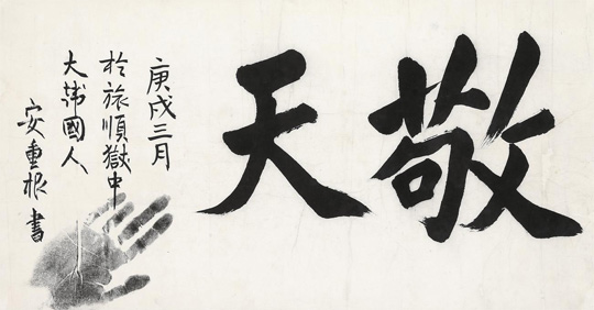 One of An Jung-geun's posthumous calligraphy. This work is "敬天 庚戌三月於旅順獄中 大韓國人安重根書". Meaning: Respect Heaven, wrote by An Jung-geun, a Korean, in Ryojun Prison, in March of the year of Gengxu(the 47th year in the Sexagenary cycle, 1910 here)